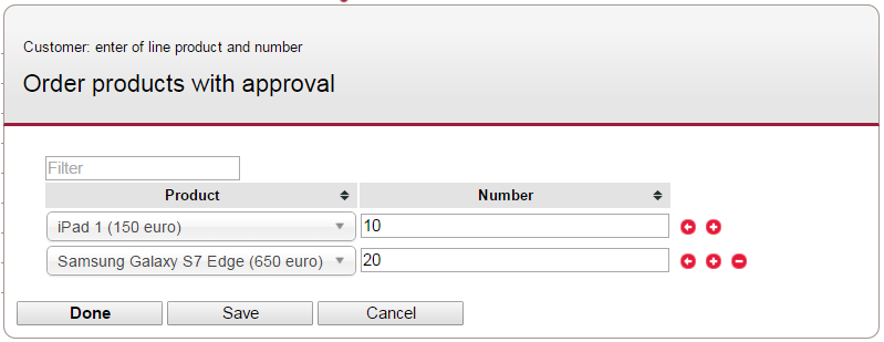 Form1 - Enter order lines by customer